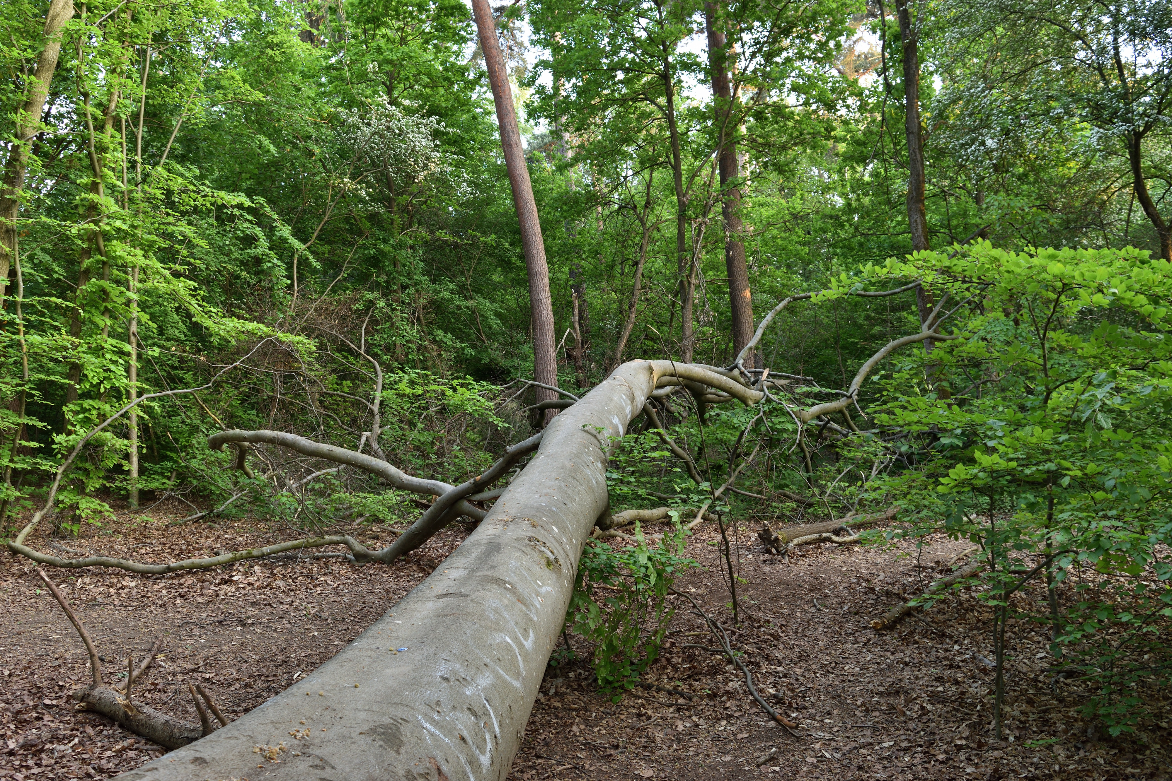 Waldrest Siemensallee Protected Landscape in Munich - Wood debris - May 2018